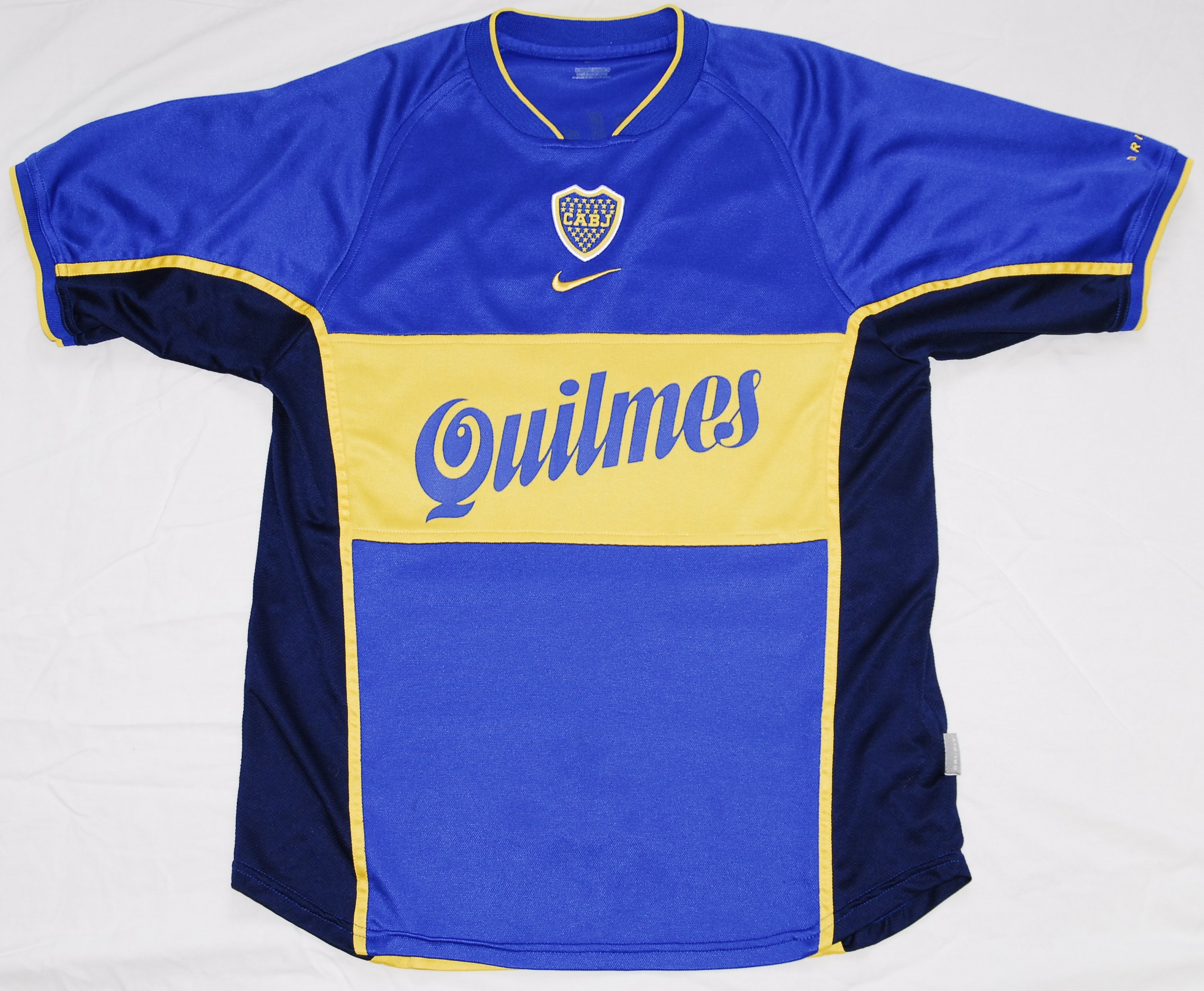 Boca Juniors 2001 Home Jersey